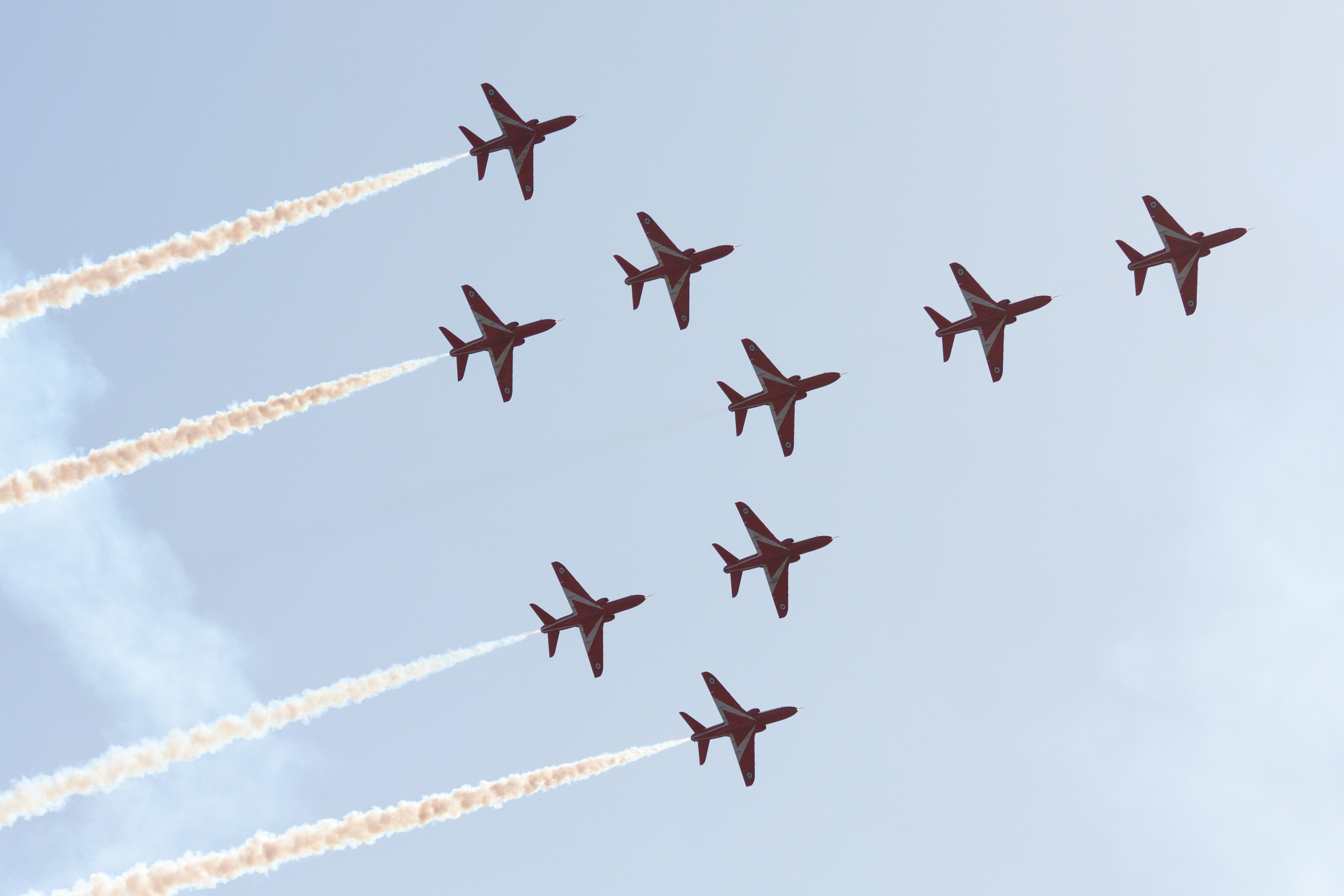 Red Arrows in formation over Jersey in 2009.